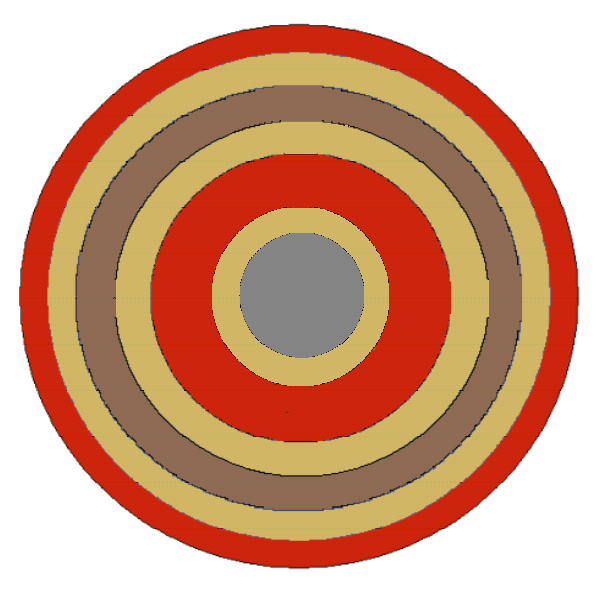 Shield pattern of the Mauri tonantes seniores, listed as a unit of auxilia palatina in the Magister Peditum's infantry roster